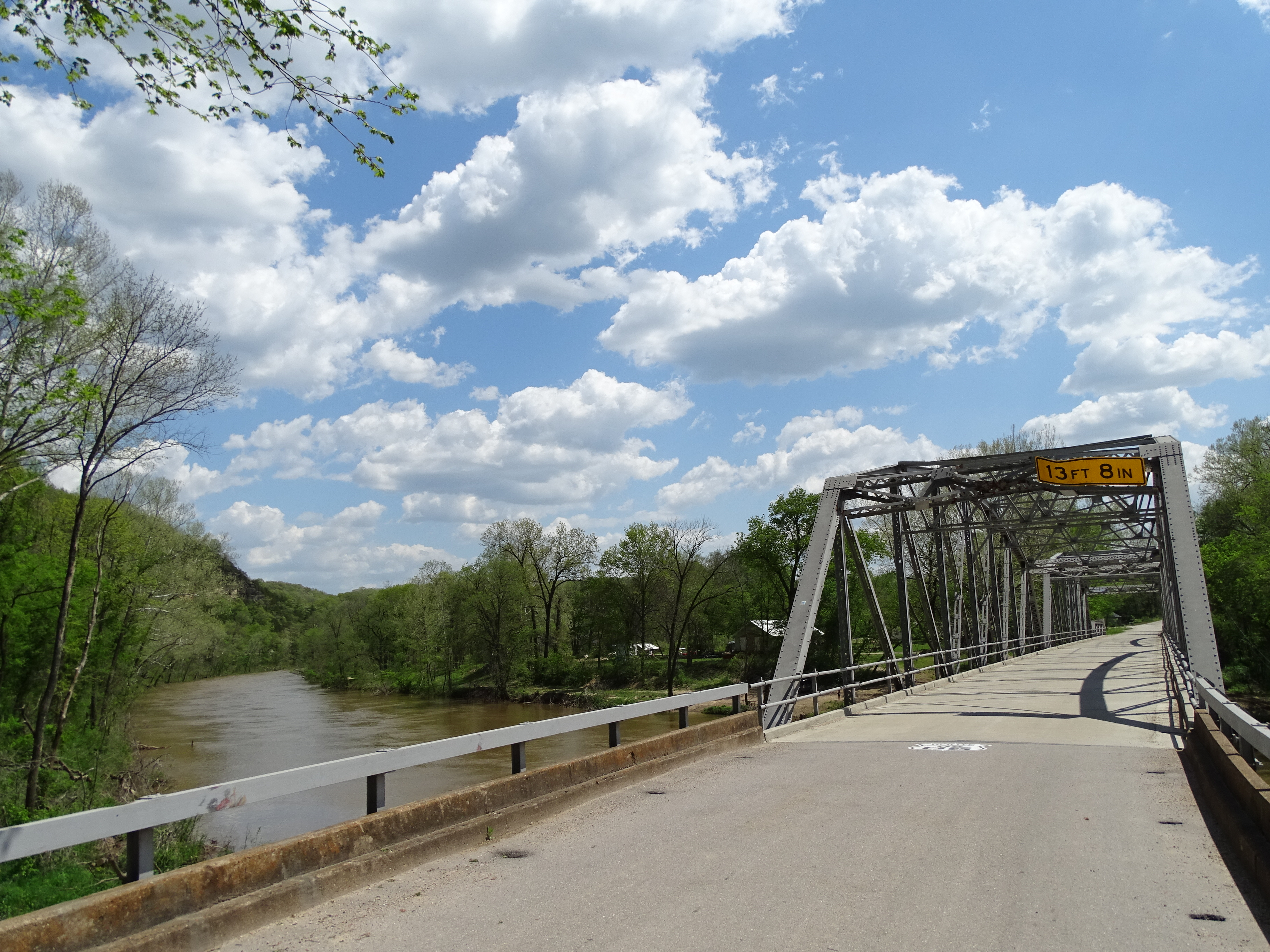 Devils Elbow Bridge - Devils Elbow - Route 66 - Missouri - USA